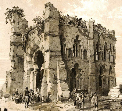 Iglesia gótico-mudéjar de Humanejos of Madrid. Detali of the drawing mde in 1850.